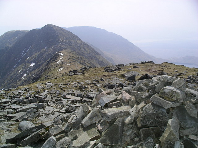 Stob Diamh : Munro No 143. The 998m summit cairn leading off along the ridge to the south to Stob Garbh (980m). Cruachan reservoir can just be seen on the right.